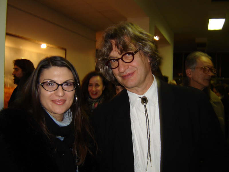 Sanja Avramović (Сања Аврамовић) from the magazine Monopollist with Wim Wenders